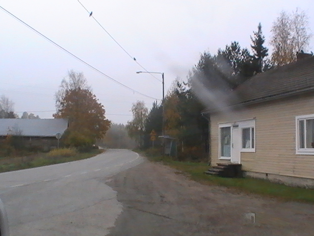 The village of Linnamaa at Eurajoki, Finland. Road seen in the picture is a part of Gulf of Bothnia coastal road.